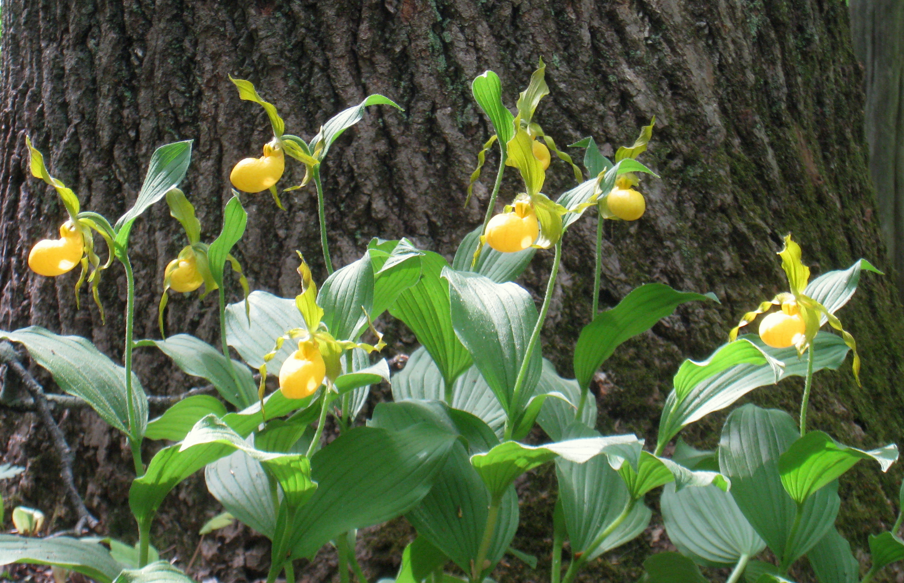 Bowman's Hill Wildflower Preserve, 1635 River Road (Pennsylvania Route 32), New Hope, Pennsylvania, Pennsylvania, USA.